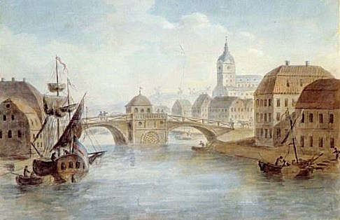 G.S. Sergejev: Turku in 1811 just before the Great fire that destroyed almost the entire city